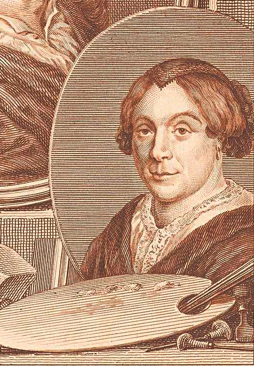 portrait of Maria Schalcken, cropped from full version